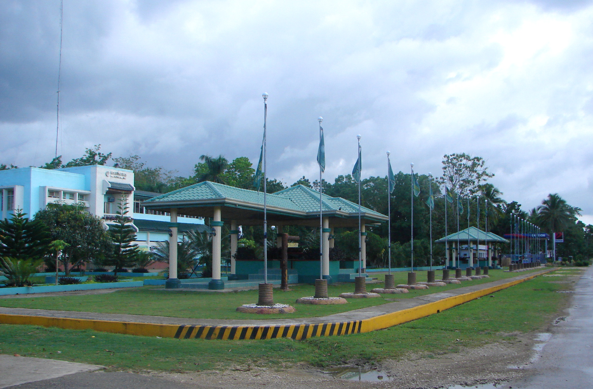 Catigbian, Bohol, the Philippines